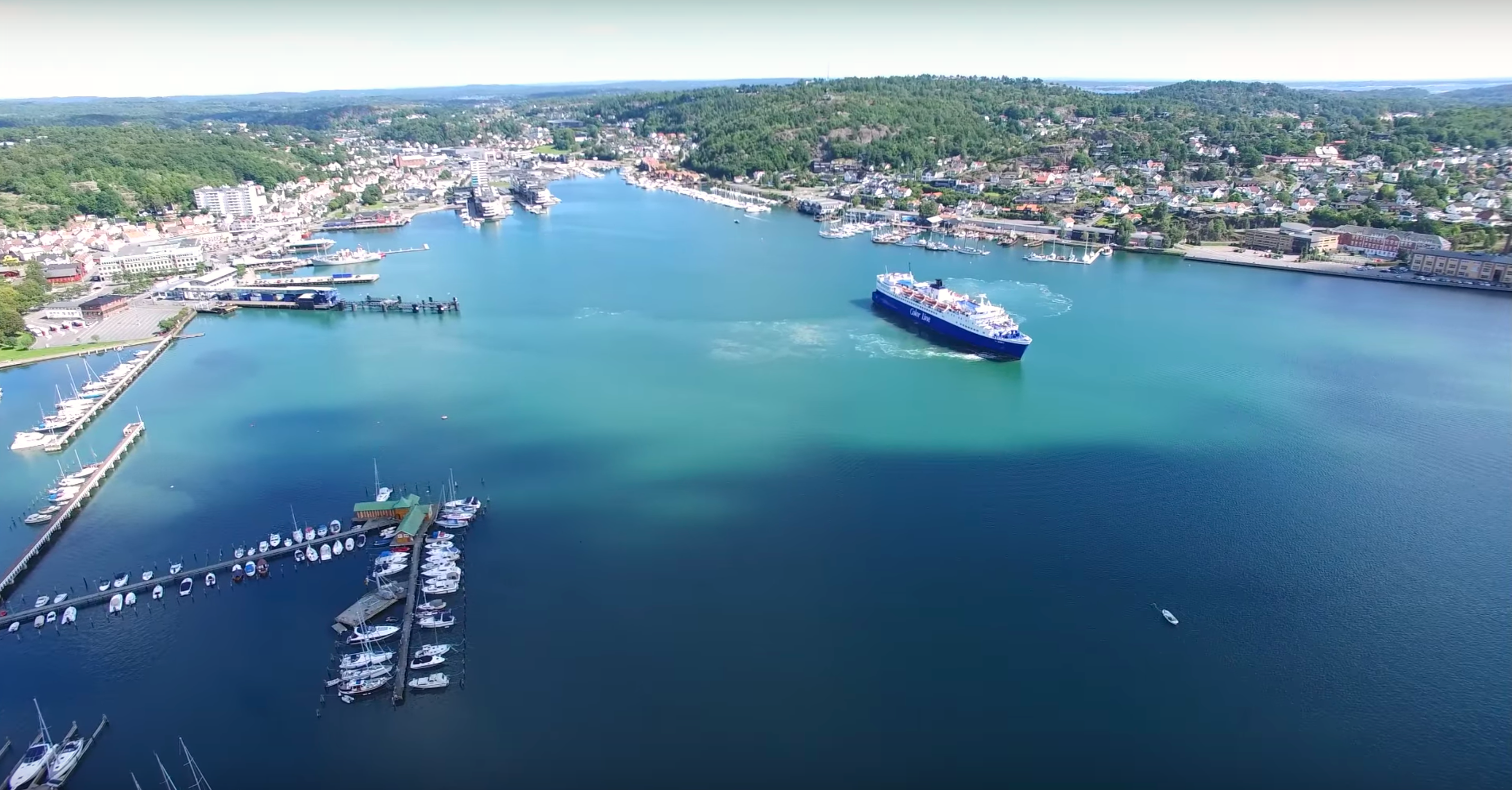 Drone photo of the Sandefjords Fjord.